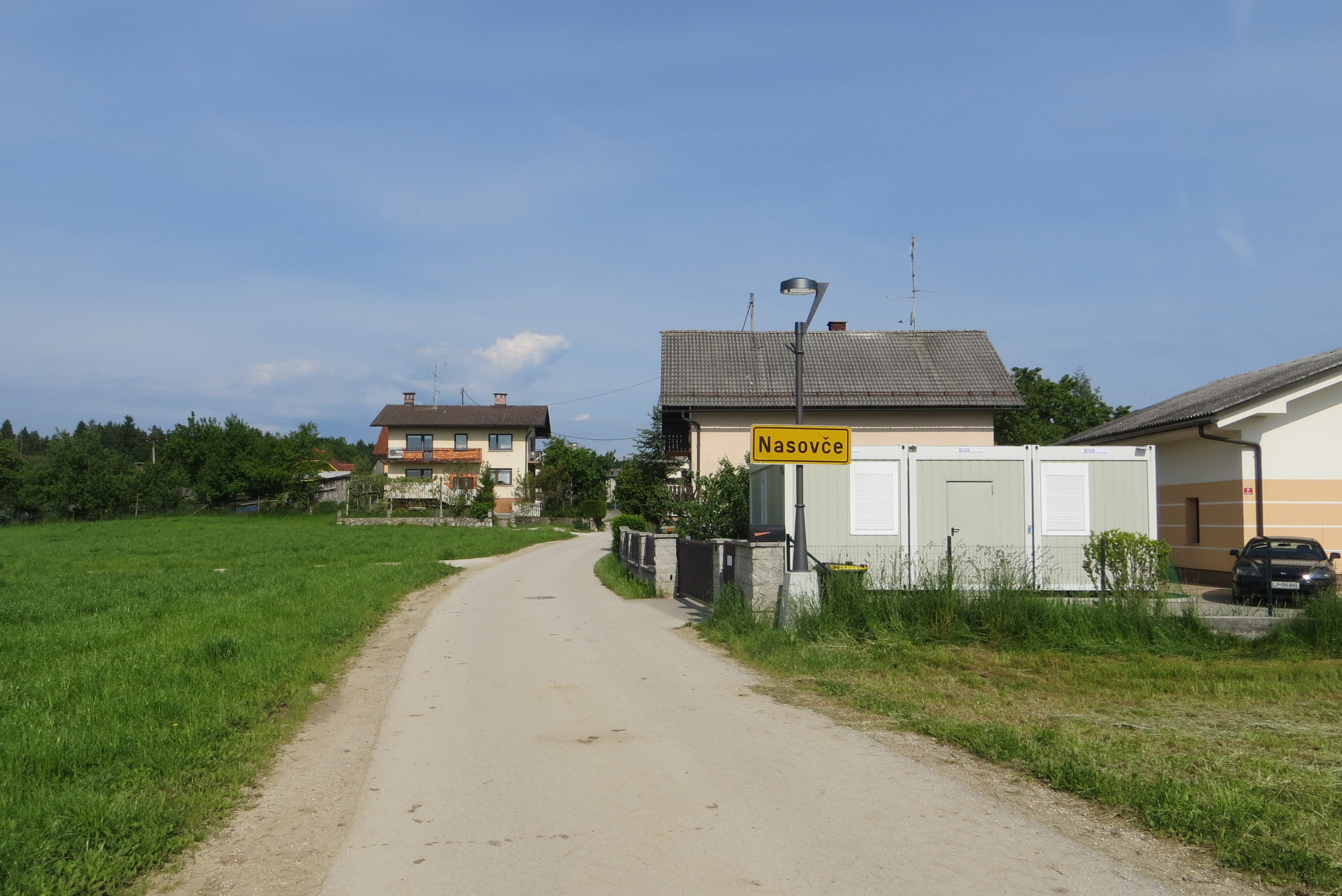 Nasovče, Municipality of Komenda, Slovenia